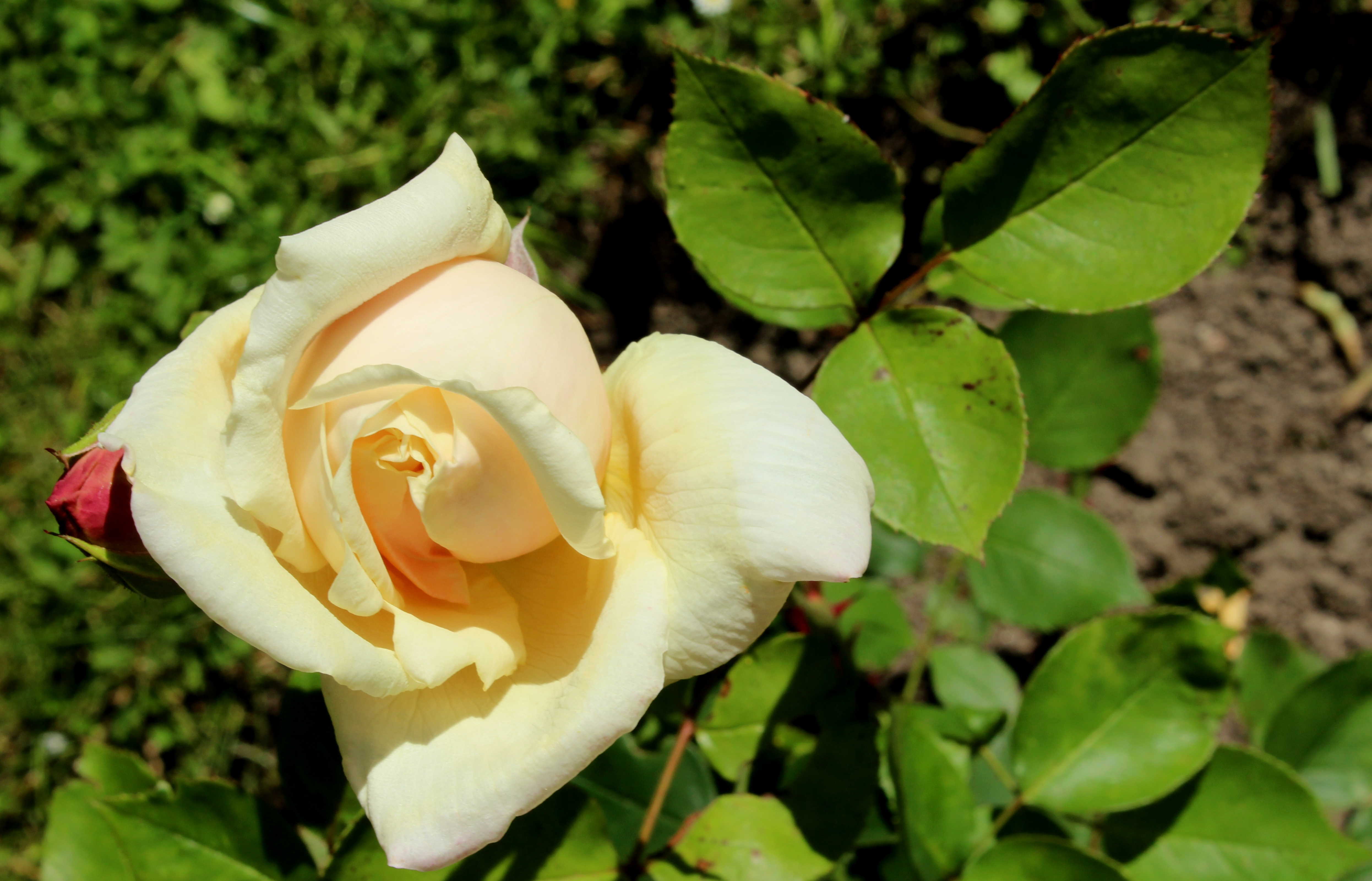 Rosa 'Gloire de Dijon' in the Rosarium Baden in the Doblhoffpark in Baden bei Wien. Identified by sign.